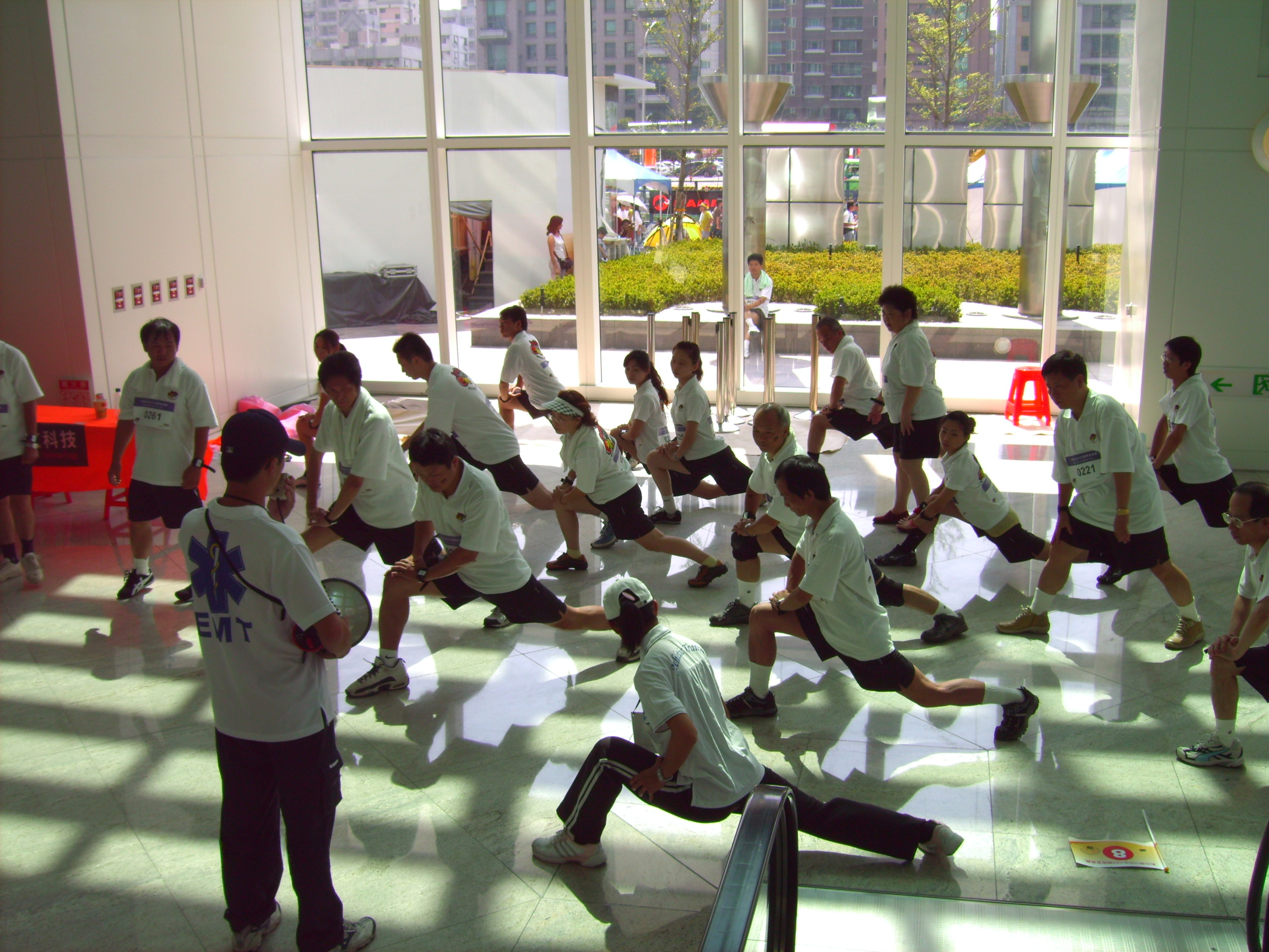 Chang-Hwa Bank Team make their warming up at 2006 Taipei 101 Run Up to prevent damage and accident.